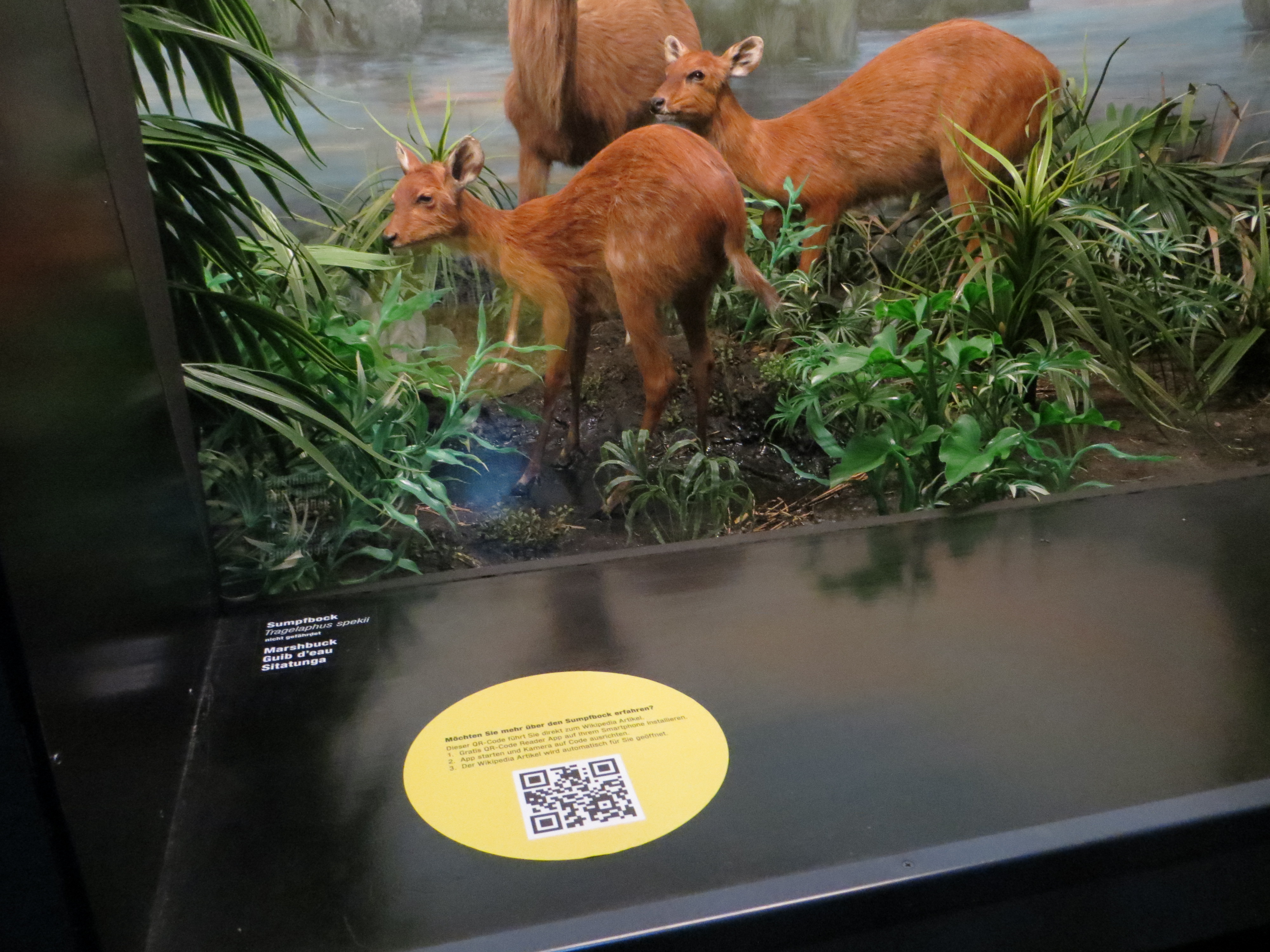 Diorama with QRpedia code, Natural History Museum of Bern